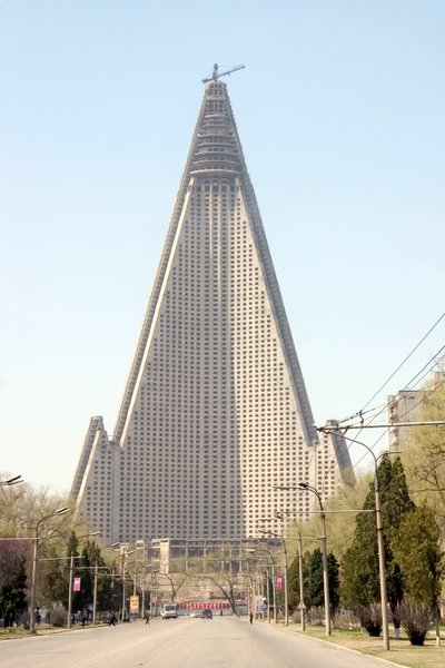 Ryugyong Hotel.